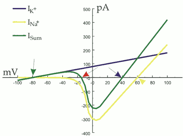 An illustration (drawn by synaptidude) approximating what an I/V (current-voltage) relationship would look like in a hypothetical biological cell that had only two transmembrane ion channels: a non-voltage-dependent potassium channel and a voltate-dependent sodium) Indexed to 8, png-ed, re-scaled and resolution down to 72ppp by DaDez 11:16, 6 February 2006 (UTC)